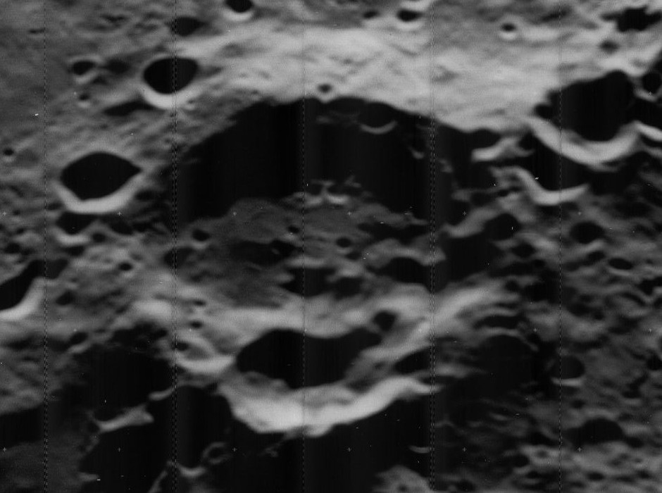 Oblique view of Bronk, on the far side of the moon, facing west.